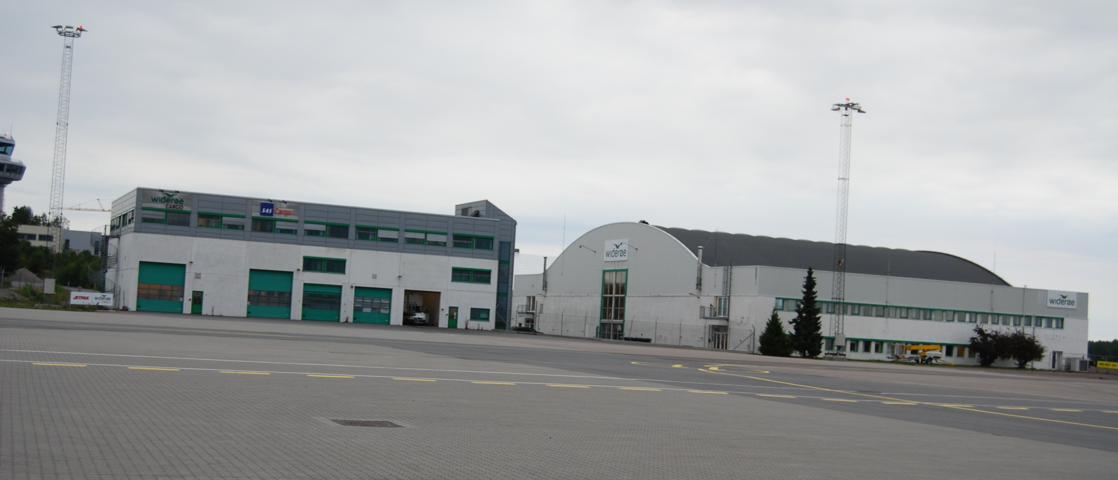 Sandefjord Airport, Torp, Norway